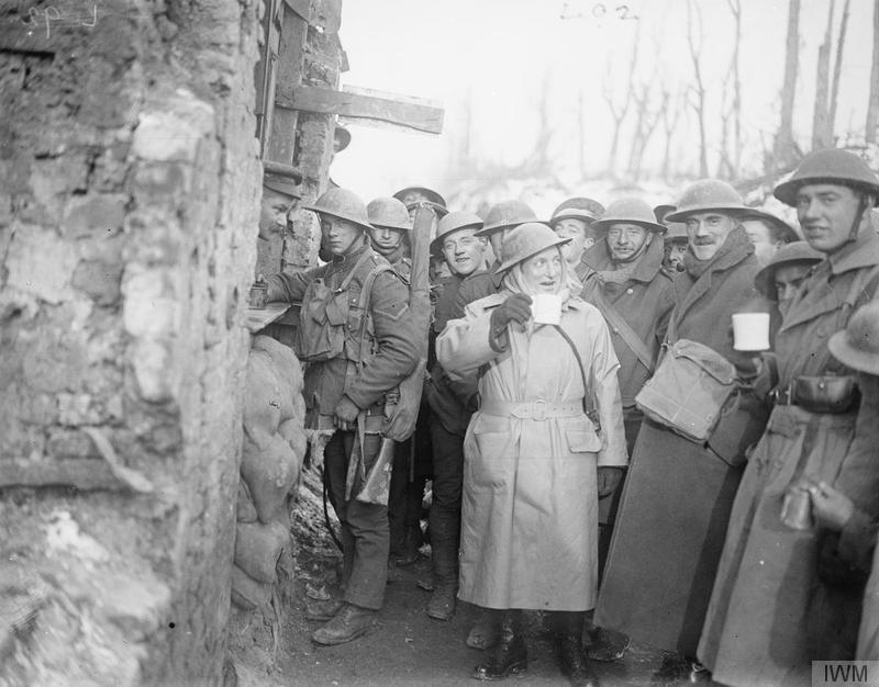 Official Visits To the Western Front, 1914-1918 Prominant British socialist, trade unionist and founding member of the Independant Labour Party, Mr Ben Tillett is seen drinking coffee with troops at a Young Men's Christian Association (YMCA) depot in Ypres, 9 January 1918.